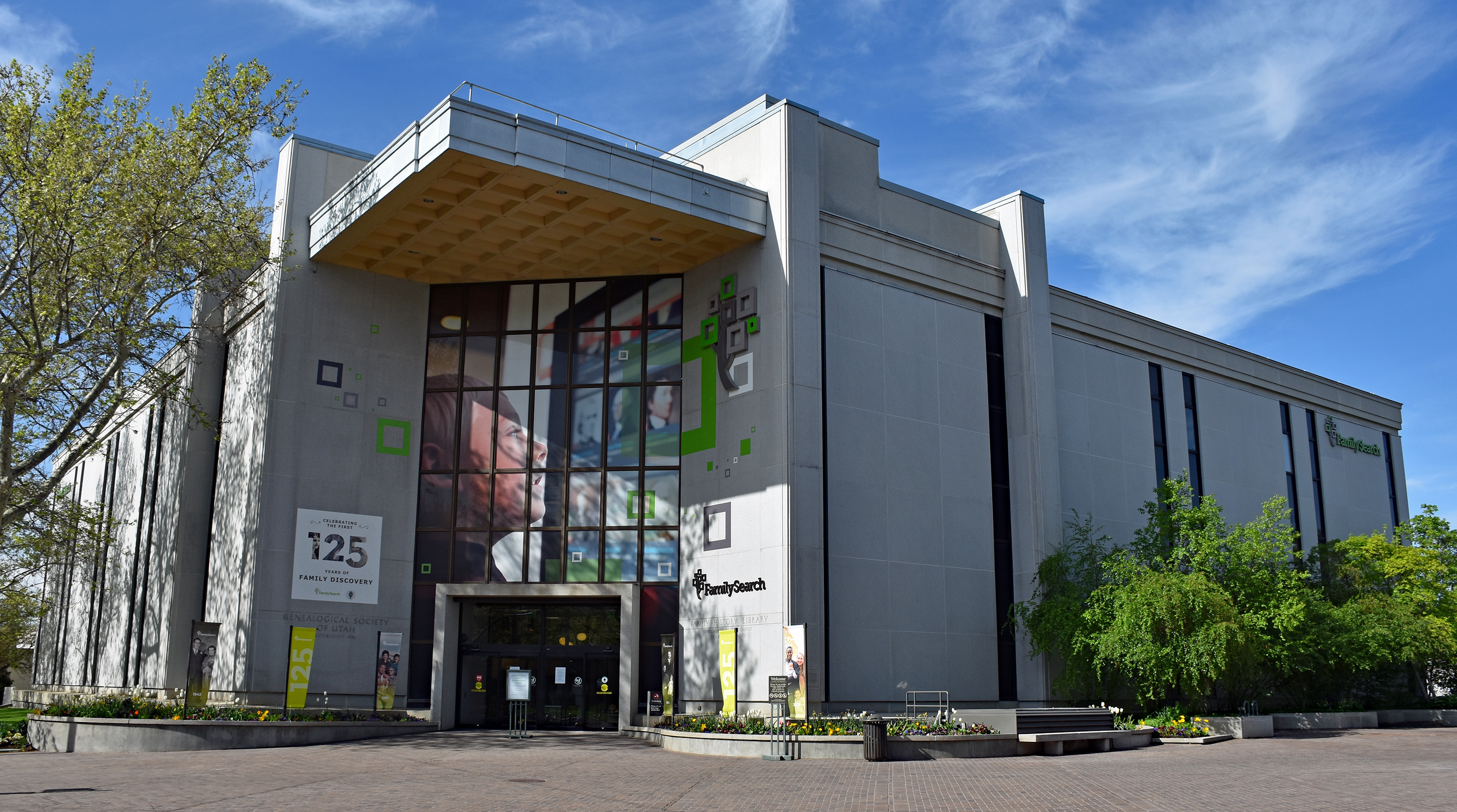 The Family History Library in downtown Salt Lake City, Utah. The library—operated by FamilySearch International—is the world's largest genealogical library.